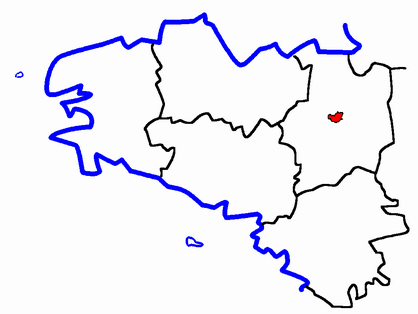 Map for localisazion of cantons of Pays-de-Loire, region in France